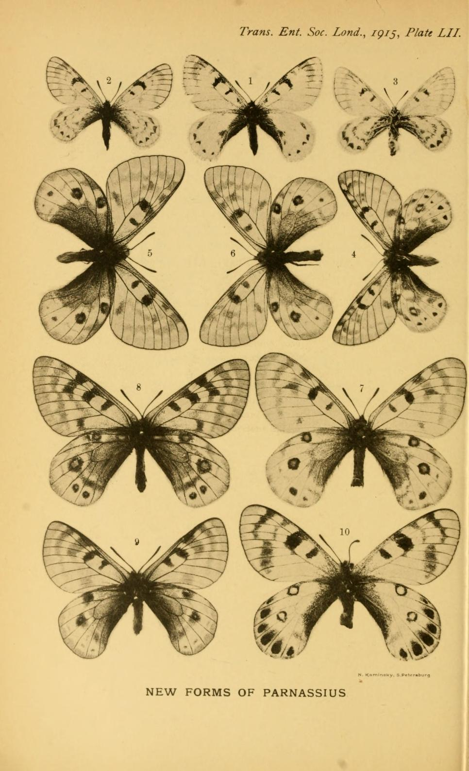 Avinoff, 1916 Some new forms of Parnassius (Lepidoptera, Rhopalocera) Trans. ent. Soc. Lond. 1915 : 351-360, pl. 52 (Plate LII) 1-3 Parnassius hunnyngtoni Avinoff, 1916 1 male, 2 female, 3 female underside 4 Parnassius acco hampsoni Avinoff, 1916 male 5 Parnassius acdestis rupshuana Avinoff, 1916 male 6 Parnassius acdestis rupshuana Avinoff, 1916 female 7 Parnassius acdestis ladakensis Avinoff, 1916 female 8 Parnassius latonius , originally described as an independent species, but a very heavily marked form of P. acdestis lampidius Fruhst., from Sikkim. There is a distinct red basal eyelet on the hindwing. Two specimens of P. latonnis have been found at Kangma, South Tibet, near Shigatse* One of these specimens I obtained through Bang-Haas in Dresden.(Avinoff) 9 Parnassius patricius priamus Bryk, 1915 male 10 Parnassius loxias raskemensis Avinoff, 1916 female text